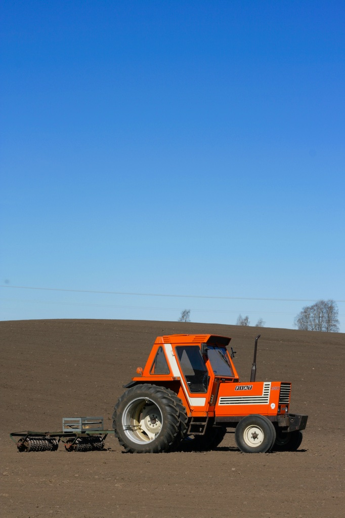 Fiat 680 tractor, mod. 1981, with roller. Stange, Norway.